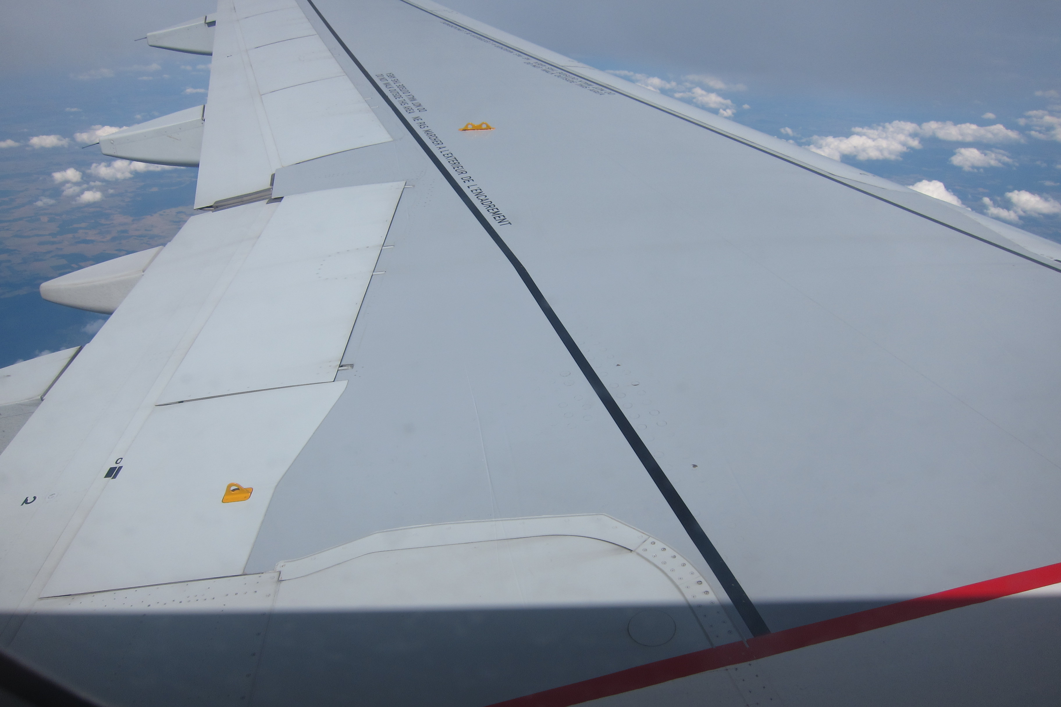 Shock waves are visible above the wing of an A320 family airliner during a regular flight. The shock waves appear as faint vertical "creaks" or "wrinkles" in the photo, and move back and forth a few centimeters along the top surface of the wing. They are in fact changes in air density over a very narrow amount of space, causing optical refraction. Shock waves are a normal occurrence above airliner wings, particularly during flights made at speeds in high transonic regime. whose cruise speeds are in the transonic range. They may not always be observable, depending on flight cruise, atmospheric and light conditions.